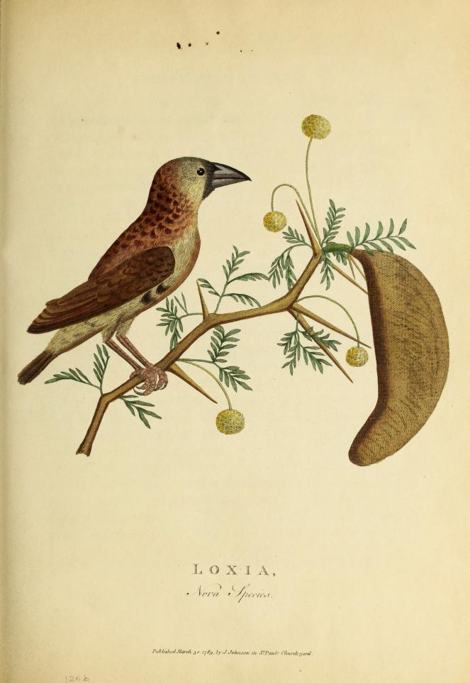 Social Weaver from a 1779 A narrative of four journeys into the country of the Hottentots, and Caffraria